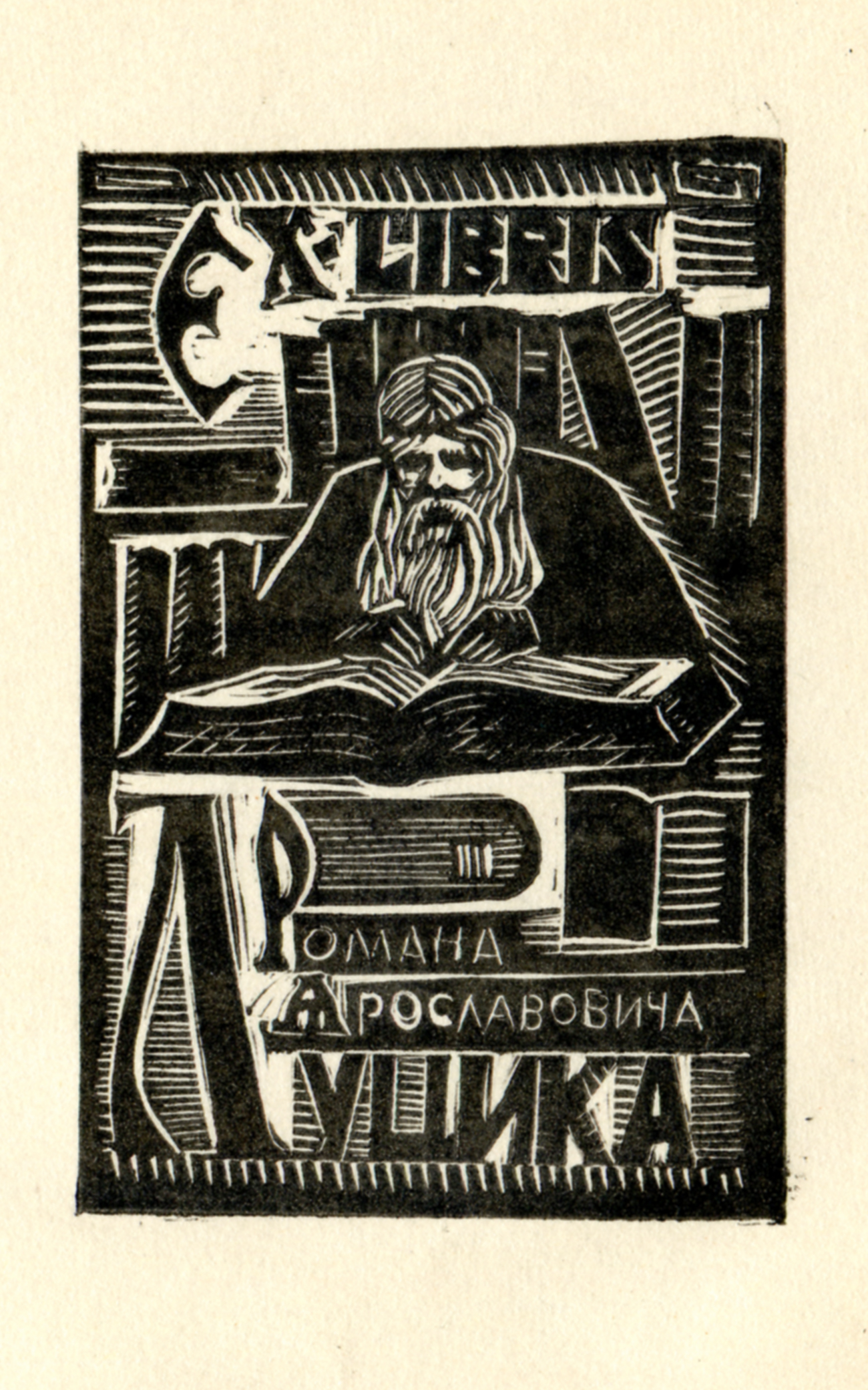 Ex libris of Roman Lutsyk